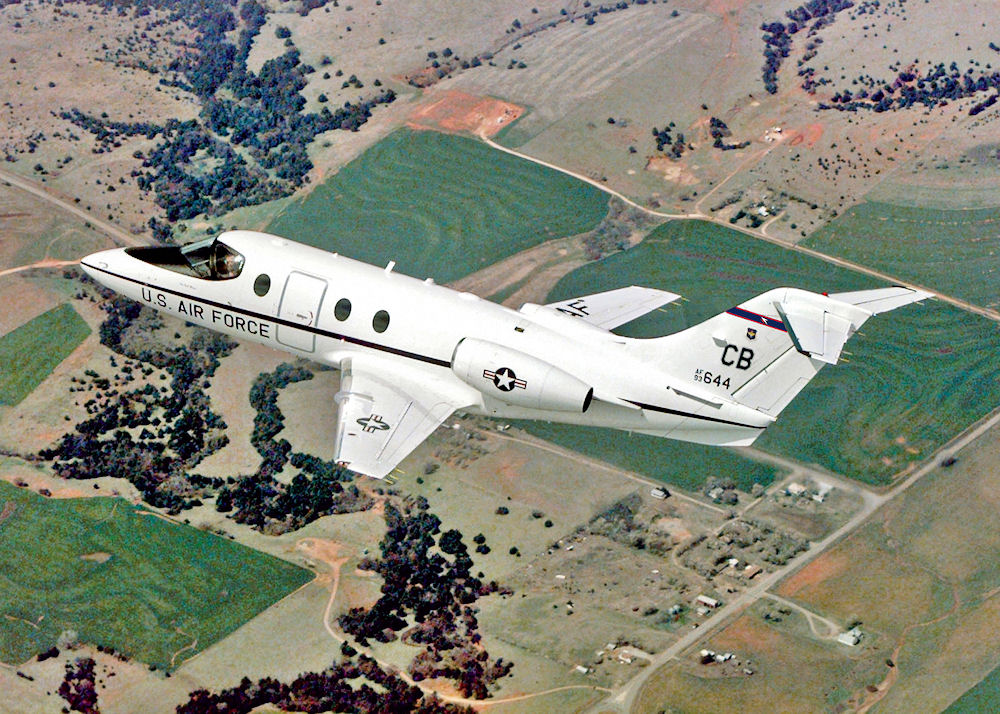 14th Operations Group T-1A Jayhawk trainer